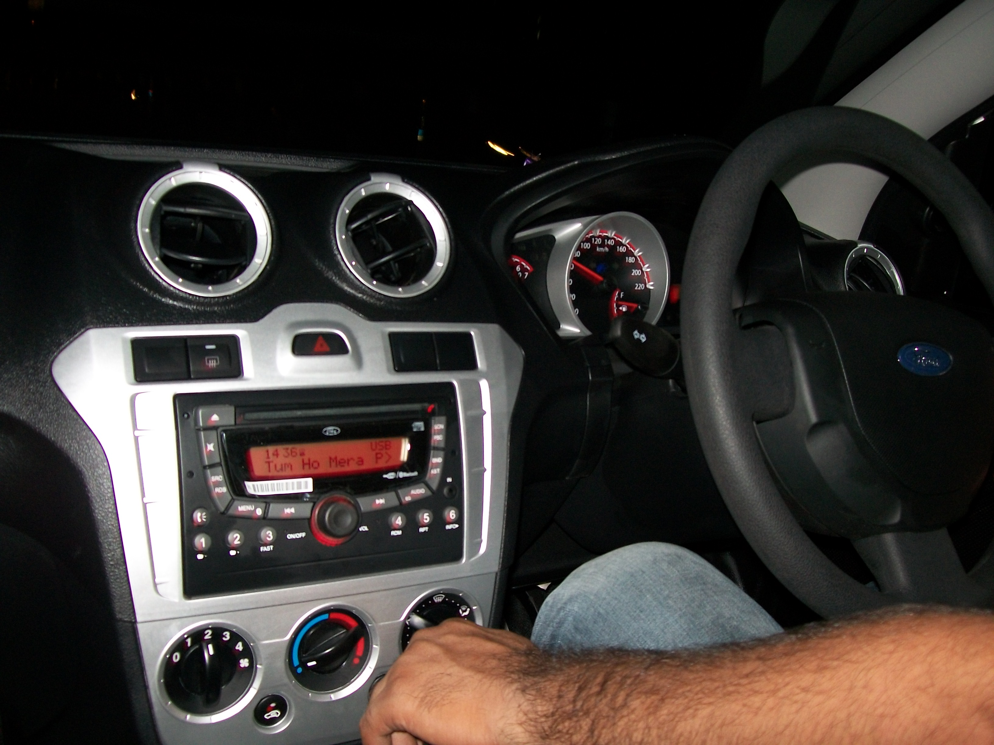 1.4 zxi figo